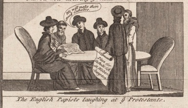 File name: 11_03_000031 Box label: American related cartoons, 5548 - 5731 Title: The political raree-show: or a picture of parties and politics, during and at the close of the last session of Parliament, June 1779 Translated title: Creator/Contributor: Date issued: 1779-07-01 Physical description: 1 print : engraving ; 9 1/2 x 14 in. Summary: A boy looks into a peep show to see twelve pictures of recent events in the British empire. ... 11) English papists laughing at Protestants due to passage of the Catholic Relief Act. ... Genre: Political cartoon; Engravings Subjects: Burgoyne, John, 1722-1792; North, Frederick, Lord, 1732-1792; Howe, William Howe, Viscount, 1729-1814; Sandwich, John Montagu, Earl of, 1718-1792; Burke, Edmund, 1729-1797; Fox, Charles James, 1749-1806; United States--History--Revolution, 1775-1783; Politics & government; Commerce; Peepshows Notes: References: Catalogue of prints and drawings in the British Museum, no. 5548 (BM 5548); References: American Revolution in Drawings and Prints, no. 748 (ARDP 748) Statement of responsibility: Collection: Americana Collection Location: Boston Public Library, Print Department Rights: No known restrictions